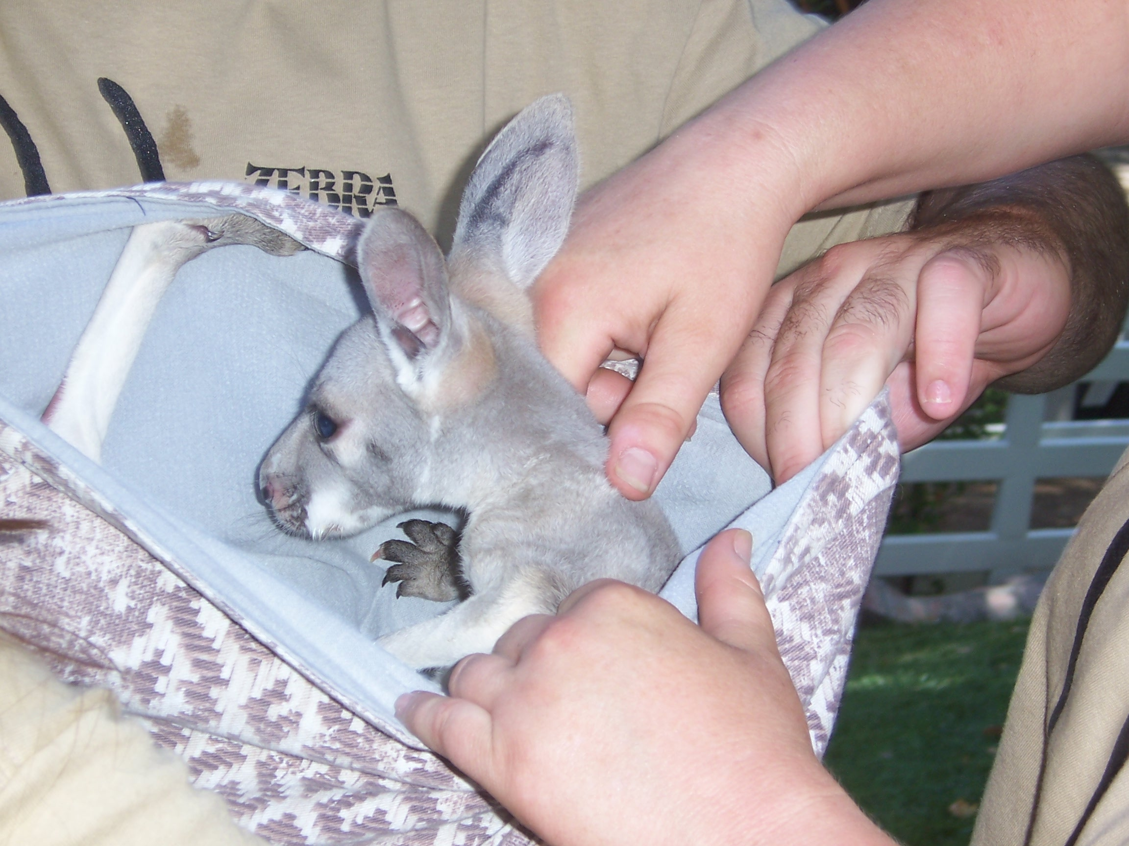 A baby kangaroo